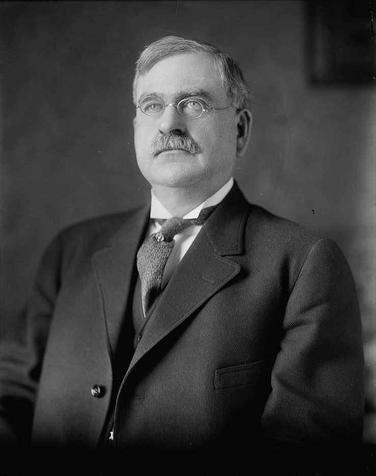 Title: YOUNG, LAFFETTE. SENATOR Abstract/medium: 1 negative : glass ; 8 x 10 in. or smaller